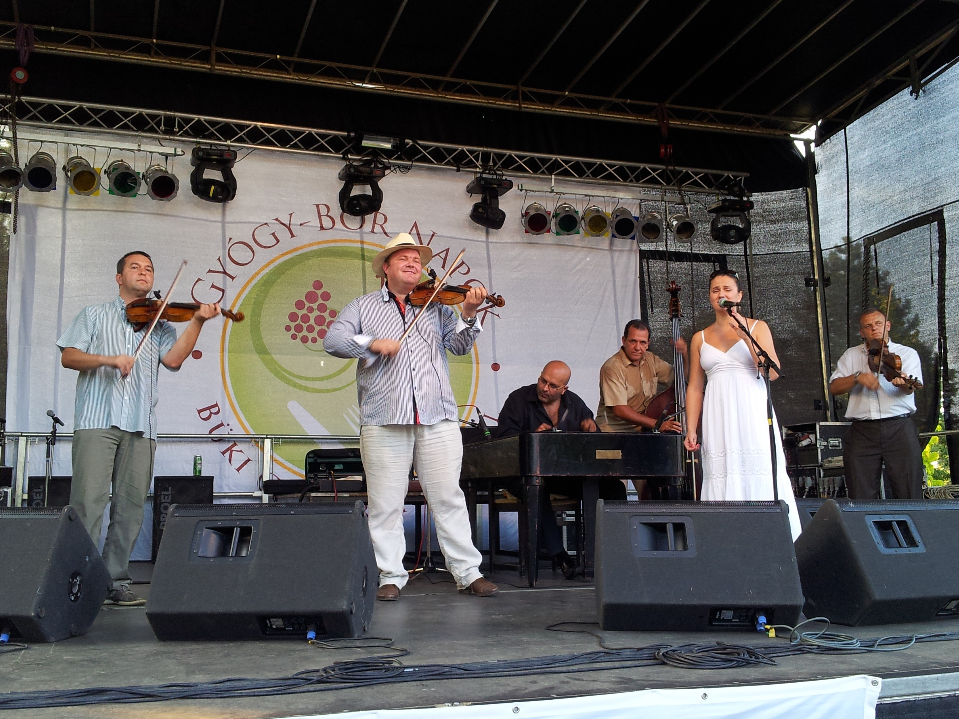 István Pál „Szalonna” and his Band on concert in Bükfürdő (Hungary) on 26 July 2013. Members (left to right): Tamás Gombai (violin), István Pál (violin), Sándor Ürmös (dulcimer), Róbert Door (double bass), Eszter Pál (singer) and Gyula Karacs (viola)